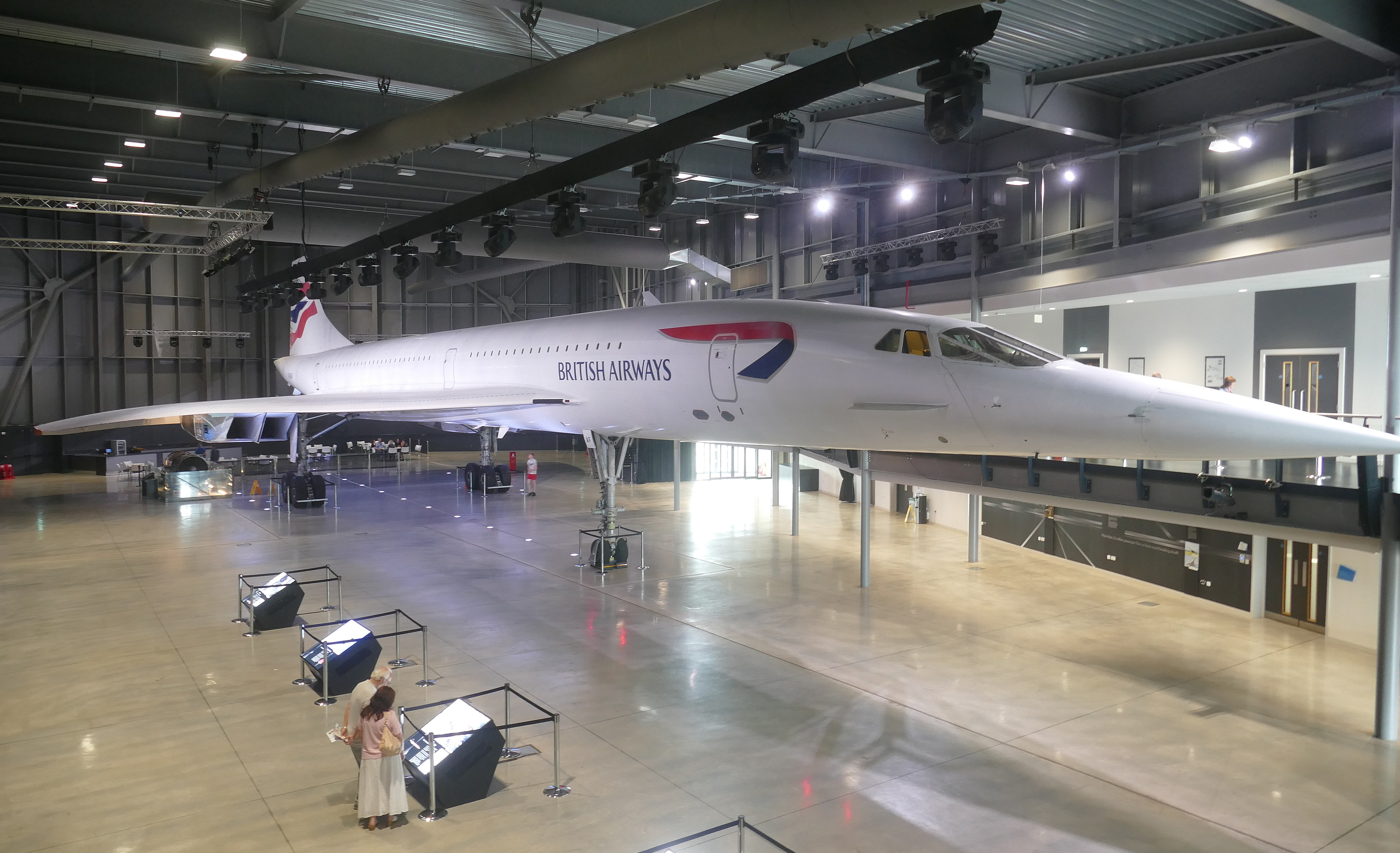 ex-British Airways Concorde 216 (G-BOAF) on display at the Aerospace Bristol Museum, South Gloucestershire, Bristol, England. SOME FACTS: Manufactured by the British Aircraft Corporation. First flight (from Filton, Bristol) 20th April 1979. Delivered to British Airways 13th June 1980. Final flight was Heathrow to Filton (where it was manufactured) on 26th November 2003. This was the last flight by a Concorde ever. G-BOAF did 18,257 flying hours and 6045 landings.